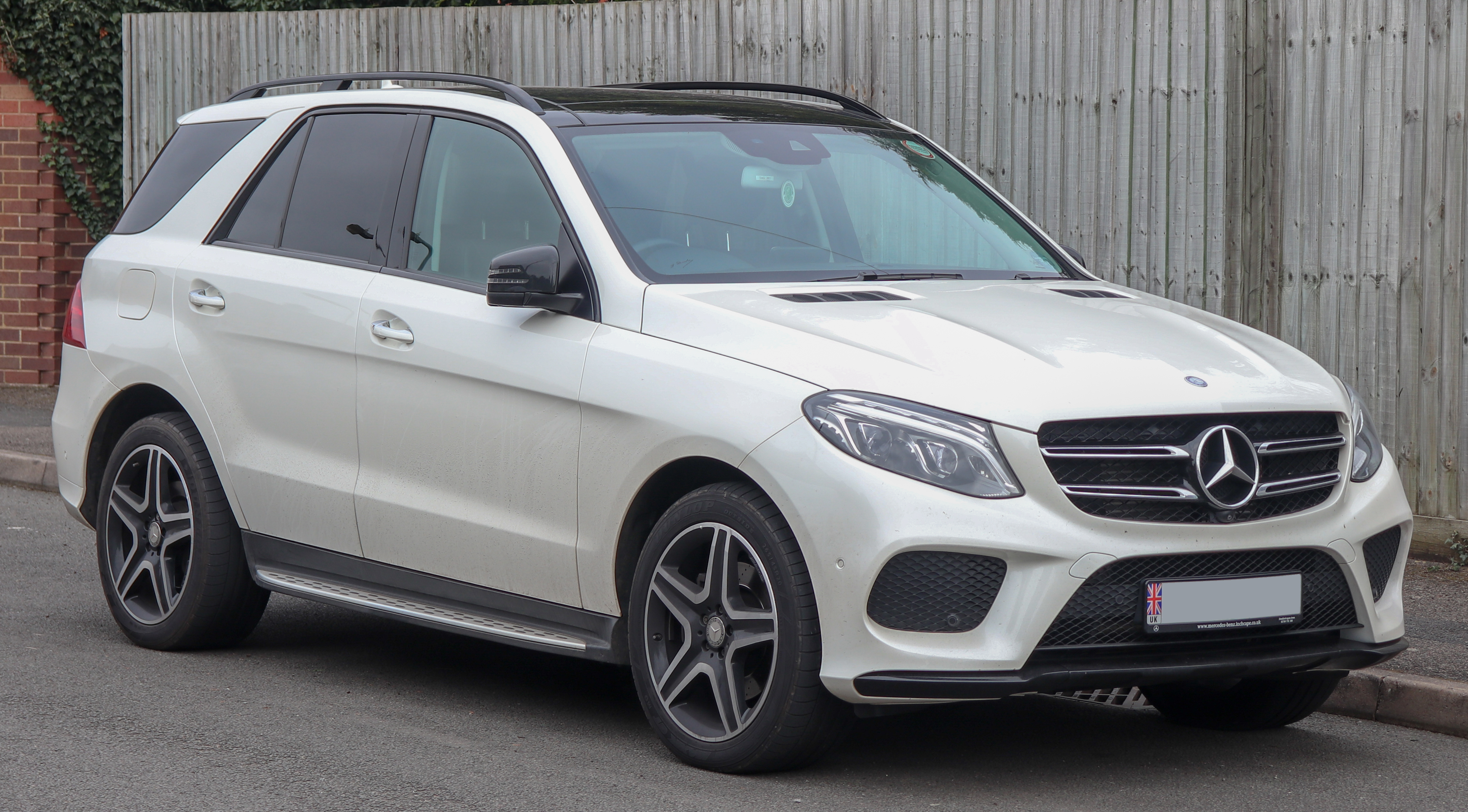 2016 Mercedes-Benz GLE 250 Diesel 4MATIC AMG Line Premium 2.1 Front Taken in Warwick